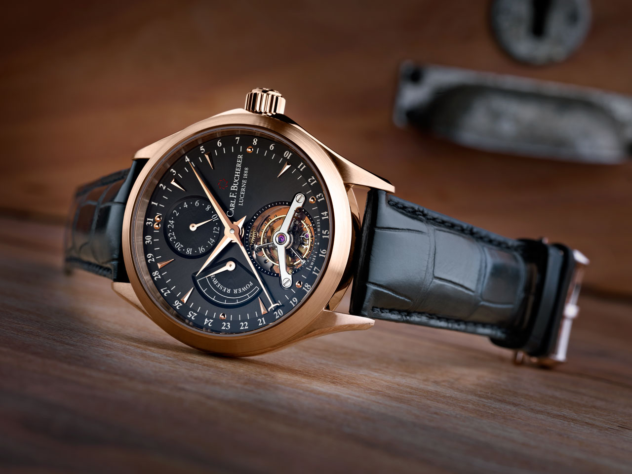 Manero Tourbillon